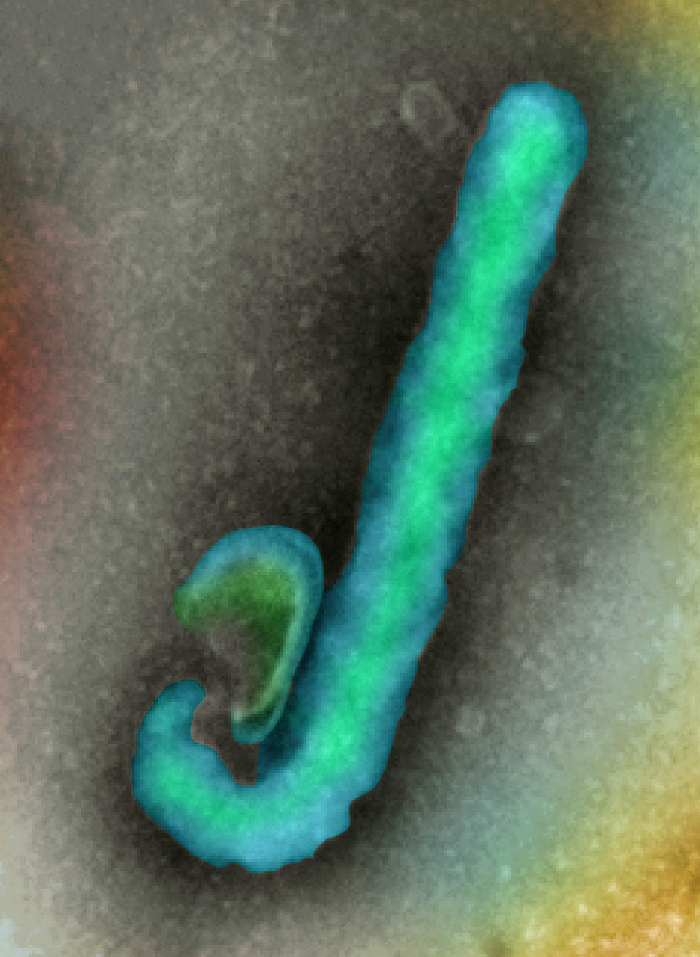 Reston Ebola virus, an artificially coloured transmission electron micrograph.